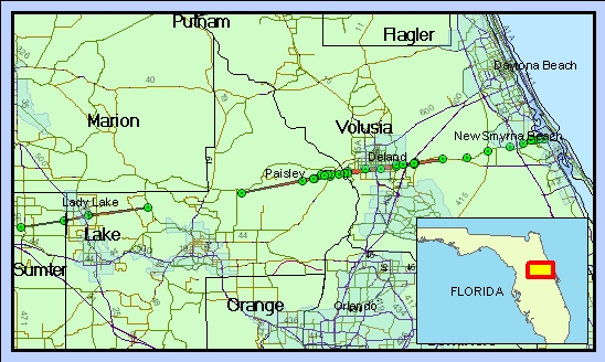 A deadly tornado event occurred across the NWS Melbourne County Warning Area within Lake and Volusia Counties during the early morning hours of February 2, 2007. A discontinuous swath of damage was observed from the town of Lady Lake (Lake County) to New Smyrna Beach (Volusia County) - a distance of over 70 miles. A total of 21 fatalities occurred within Lake County.